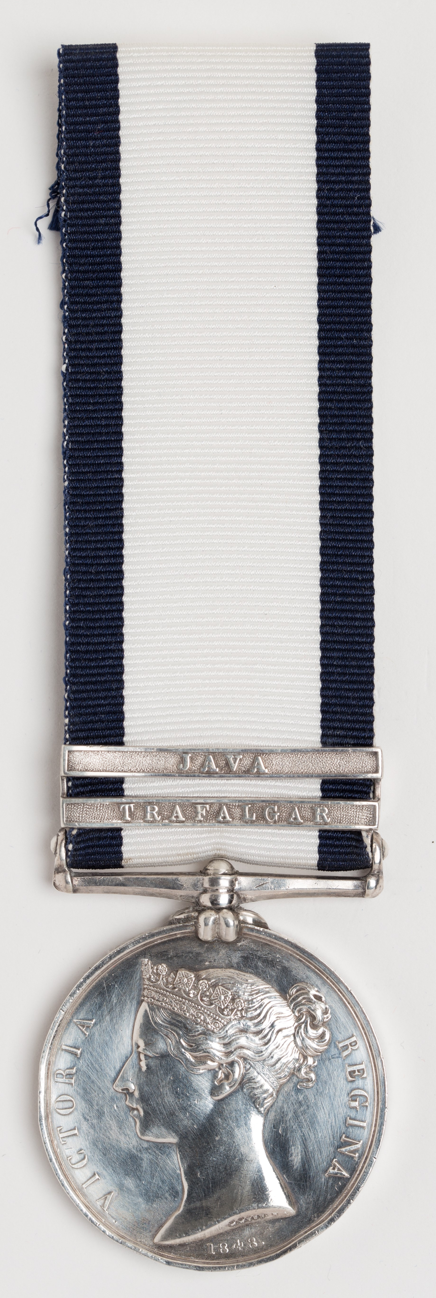 Naval General Service Medal 1793-1840 Awarded to Corporal Henry Castle, Royal Marines silver medal; 36mm diameter; plain straight swivelling suspender; two bars; with ribbon obverse- diademed head of Queen Victoria with legend above and date below- VICTORIA REGINA - 1848 reverse- figure of Britannia holding a trident, seated on sea horse; exergue blank two clasps- JAVA - TRAFALGAR ribbon- white with dark blue edges named in indented Roman capitals on edge- H.CASTLE